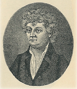 Johannes Boye